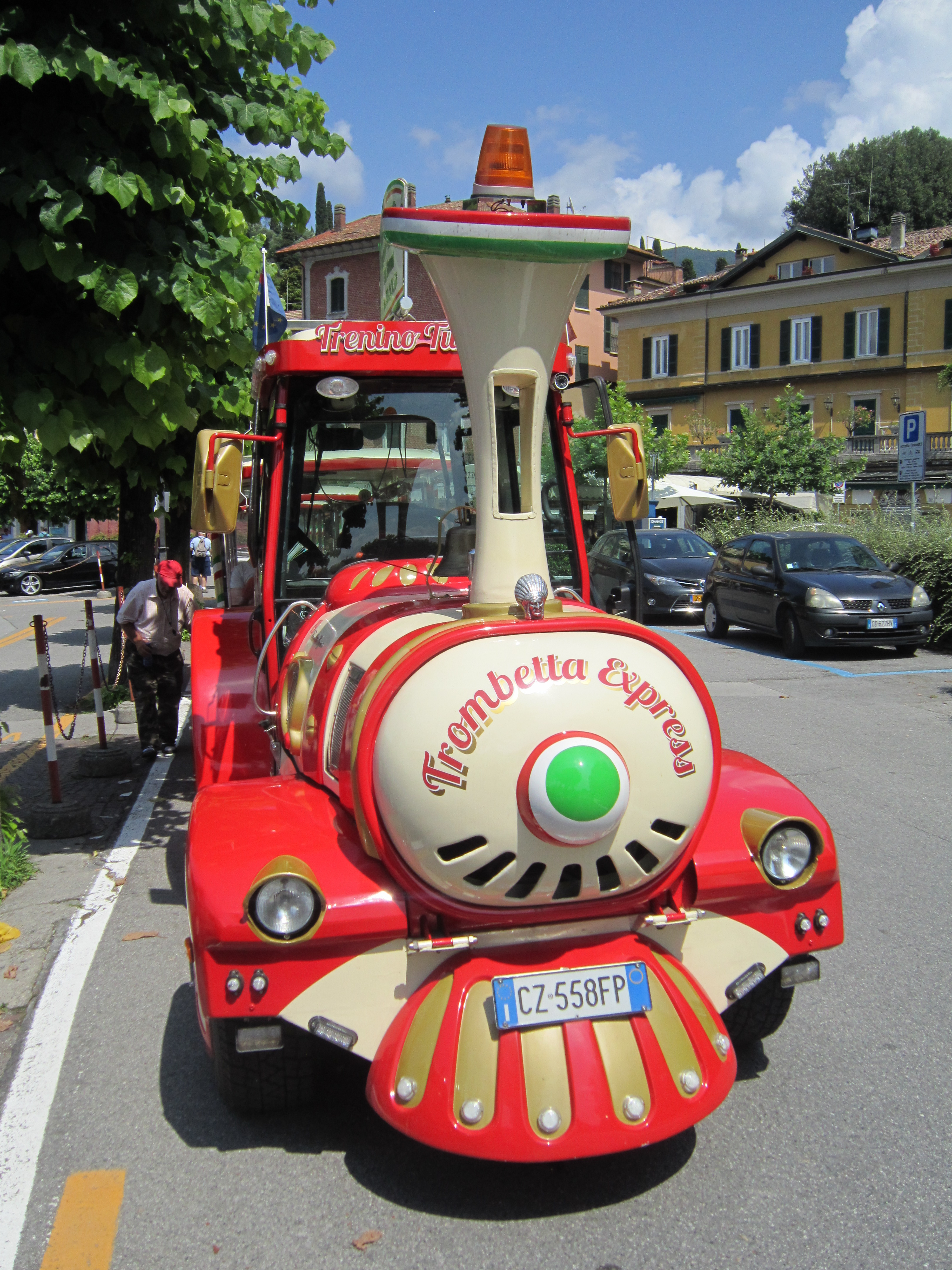 Tourist train in Bellagio (Lake Como)